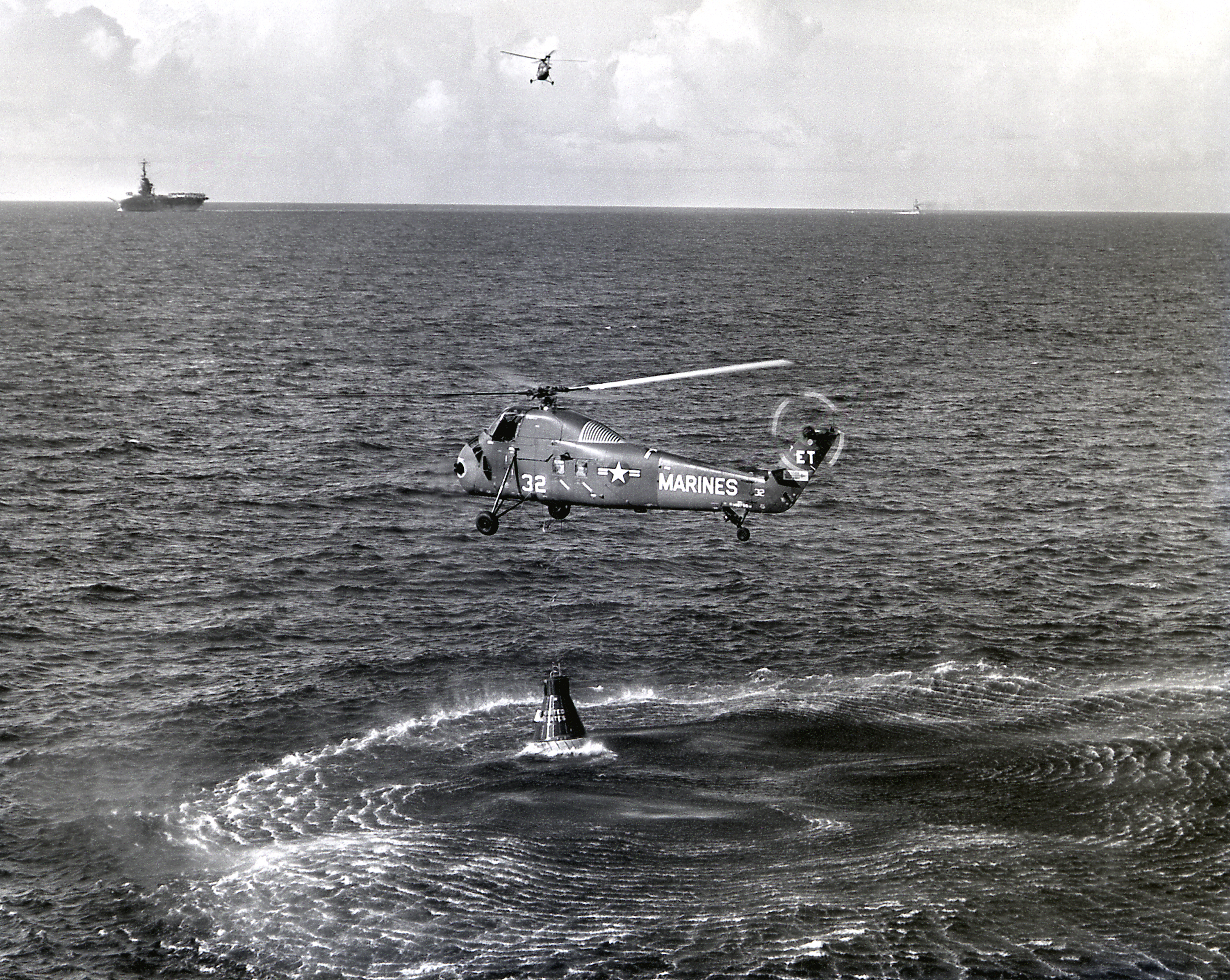 A U.S. Marine helicopter attempts to retrieve the sinking capsule, Liberty Bell 7, of the MR-4 mission. The attempt failed and the capsule sank. The MR-4 mission, manned by astronaut Virgil Grissom, was the second manned suborbital flight boosted by the Mercury-Redstone vehicle. The helicopter is a Sikorsky HUS-1 Seahorse of Marine medium transport squadron HMR(L)-262 Det. Flying Tigers. The recovery ship USS Randolph (CVS-15) is visible in the distance.